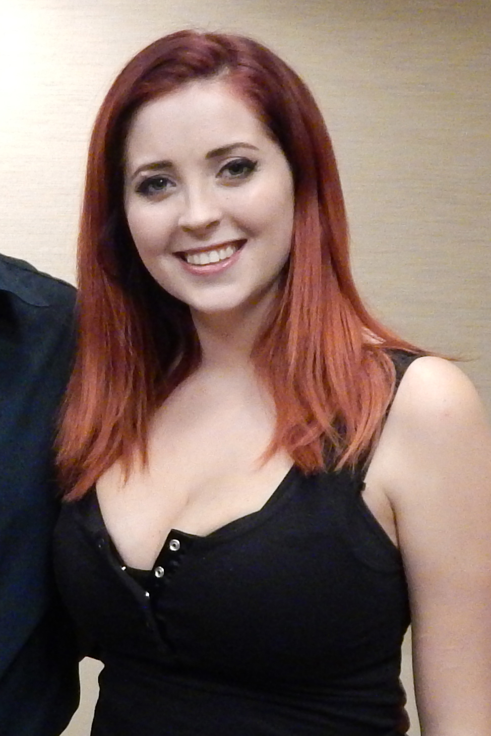 Boston Megafest 2013